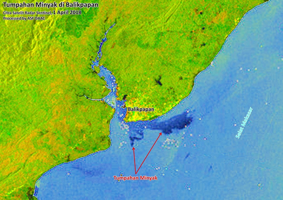 Sentinel Radar Satellite Imagery of the Oil Spill in Balikpapan on 1 April 2018